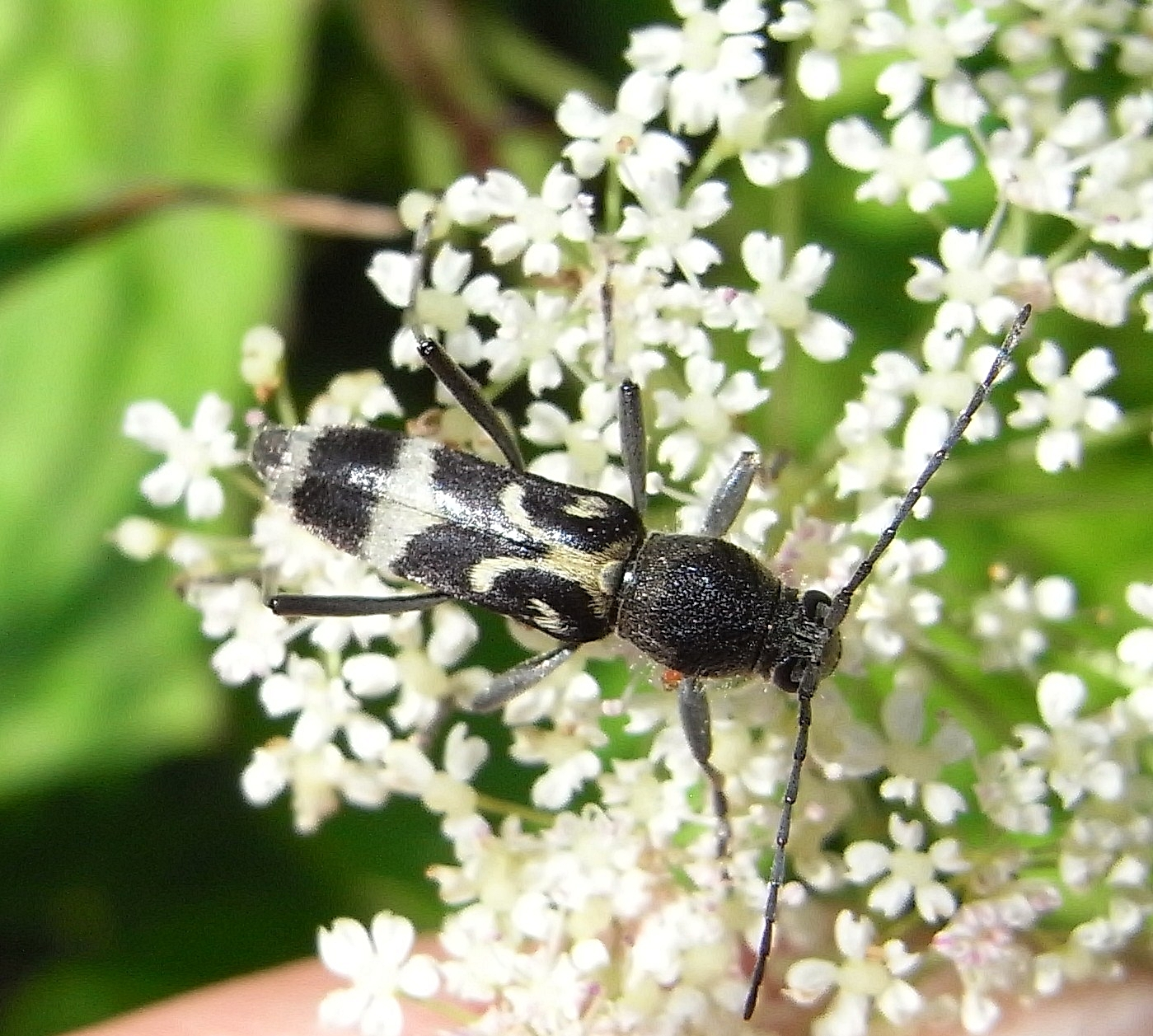 Chlorophorus figuratus from Matras-hills in Hungary at 2010-06-30 Ricoh R8